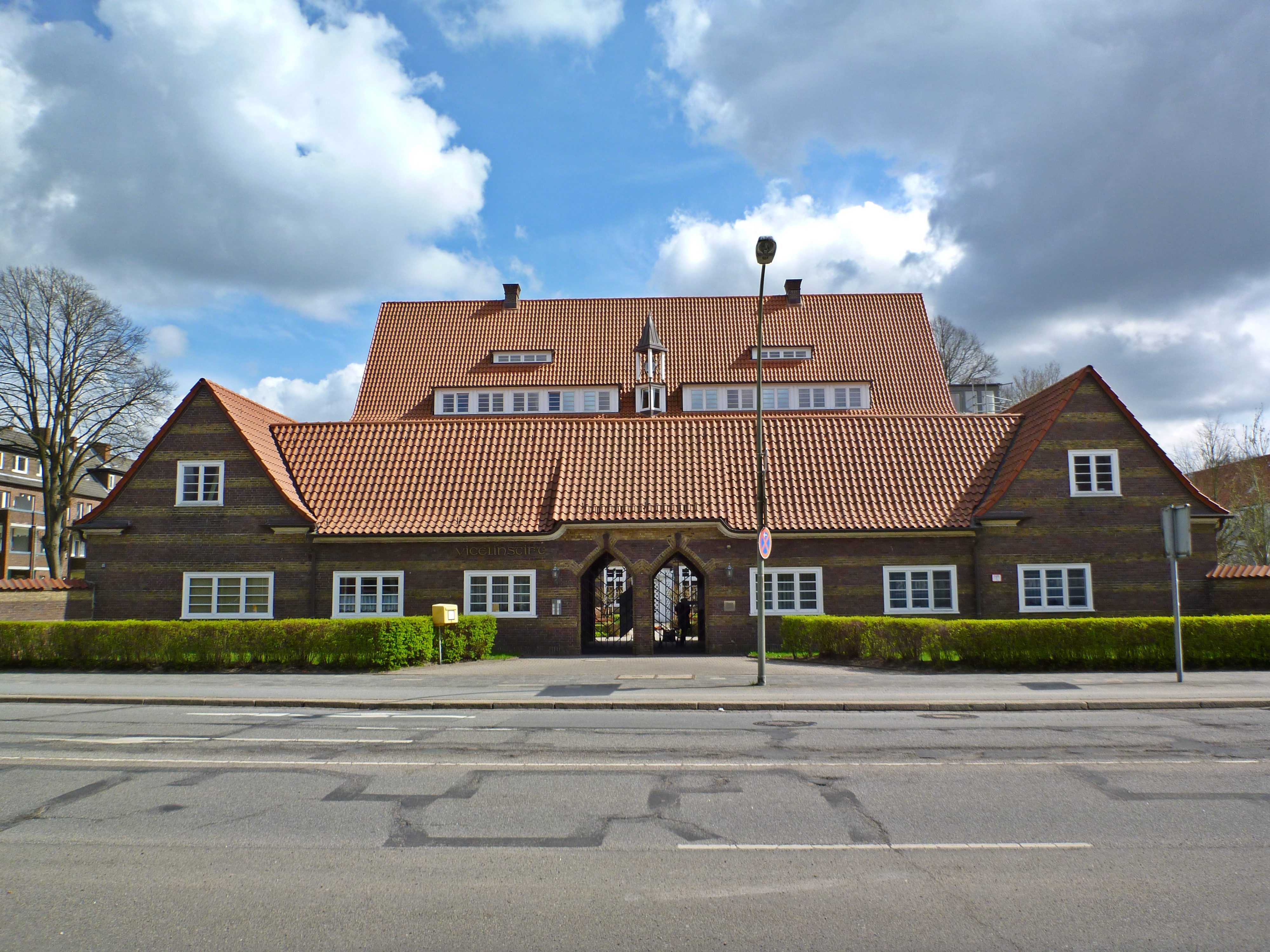 Neumünster, Vincelinstift, Roonstraße 89, Cultural heritage monuments in Neumünster